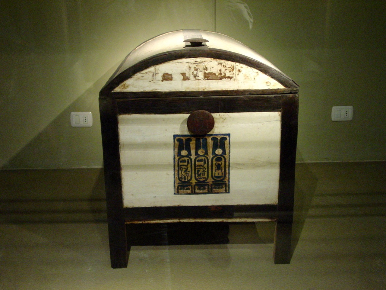 Tutankhamun's wooden chest from this pharaoh's KV62 royal tomb. This chest was discovered within the antechamber of Tutankhamun's tomb. It is now located in Egypt's Cairo Museum.